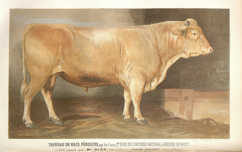 Fémeline bull from an extinct french cattle. First price in Paris 1860.